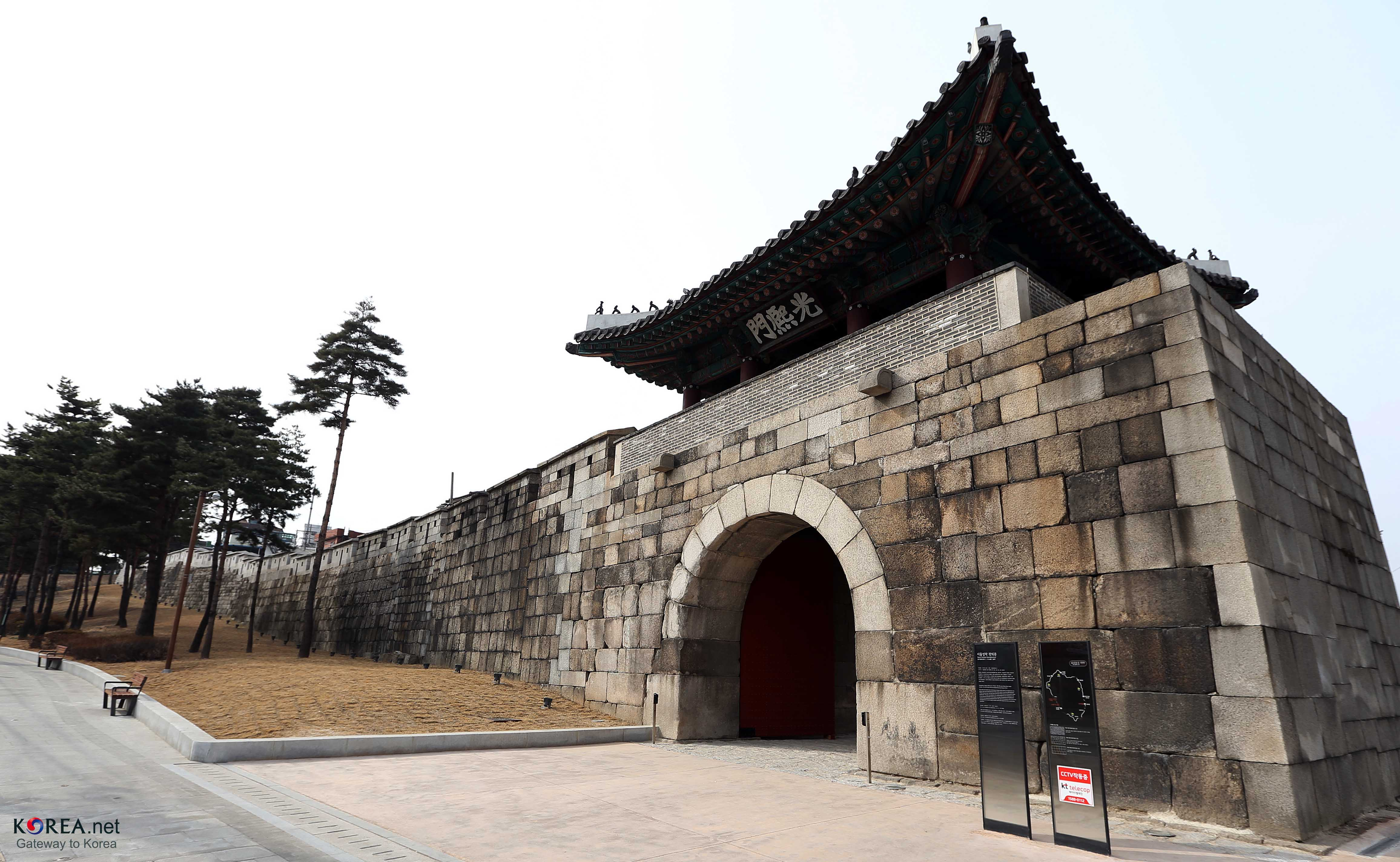 Gwanghuimun is open for the public. Gwanghuimun will be open to the public for the first time in 39 years. It has been closed for restoration since 1975. One of the Four Small Gates in the historic fortress walls of Seoul, Gwanghuimun was built in 1396 in the southeastern part of the walled capital. It was first called Sugumun(“Water Channel Gate”) but soon came to be more widely known as Namsomun (“Small South Gate”). The gate was rebuilt in 1711, and the gatehouse was completed in 1719. It was in that year the gate’s name plaque was hung. The gatehouse and battlements around it were destroyed during the Korean War, only to be restored in 1976. The current Gwanghuimun is located slightly futher south of the original site due to roads being built there. –from Information Plaque February 18, 2014 Gwanghuimun, Jung-gu, Seoul Related Articles Cheong Wa Dae Gwanghuimun Gate opens after 39 years -English- Gwanghuimun Gate opens after 39 years -中文- 光熙门时隔39年对外开放 -日本語- 光熙門、39年ぶりに公開 Ministry of Culture, Sports and Tourism Korean Culture and Information Service ( JEON HAN 광희문 39년 만에 개방 광희문은 서울성곽의 사소문 중에 동남방향에 있는 성문이다. 서울성곽이 축성된 1396년에 지어졌으며, 수구문이라고도 불렀다. 속칭 남소문이라고도 한다. 광희문은 1711년에 개축하였으며, 성문 위 문루는 1719년에 이르러 완성되었다. 광희문이라는 편액은 이 때 써 붙였다. 그 후, 6.25 전쟁으로 문루와 성문 위 여장은 다시 파괴되었으며 1976년에 고증을 거쳐 복워하였다. 지금의 광희문은 도로를 개통하면서 원래 위치에서 약간 남쪽으로 옮겨 복원한 것이다. – 광희문 표지 안내문 2014-02-18 광희문(光熙門), 서울시 중구 문화체육관광부 해외문화홍보원 코리아넷 전한